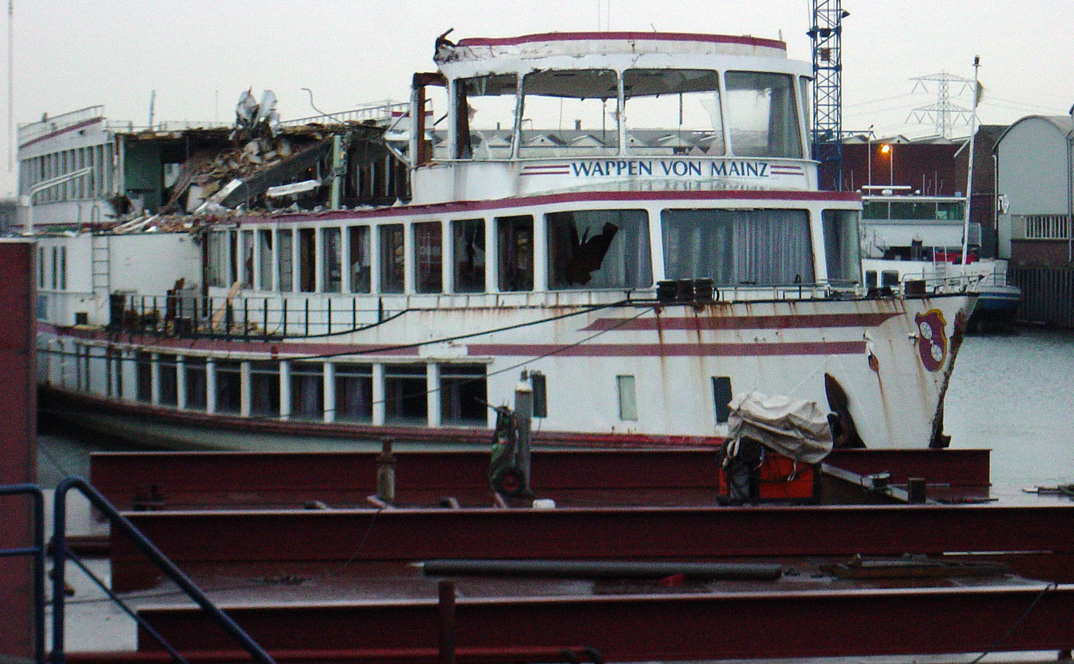 Scrapping of the passenger vessel Wappen von Mainz in Maasbracht, Netherlands